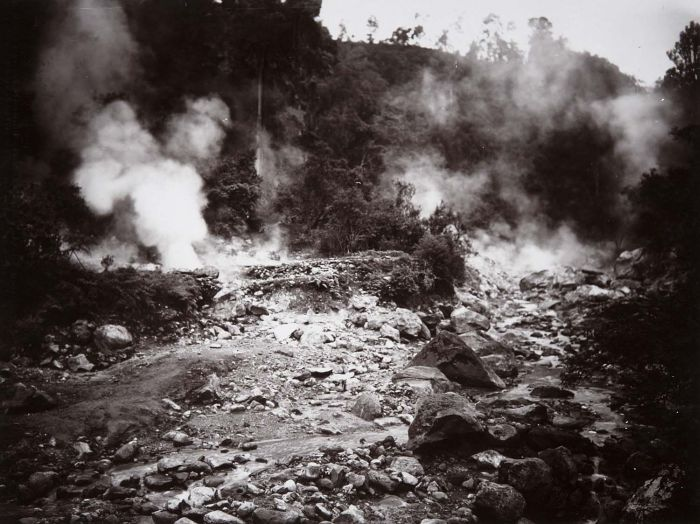 Solfatare, Kawah Cibuni